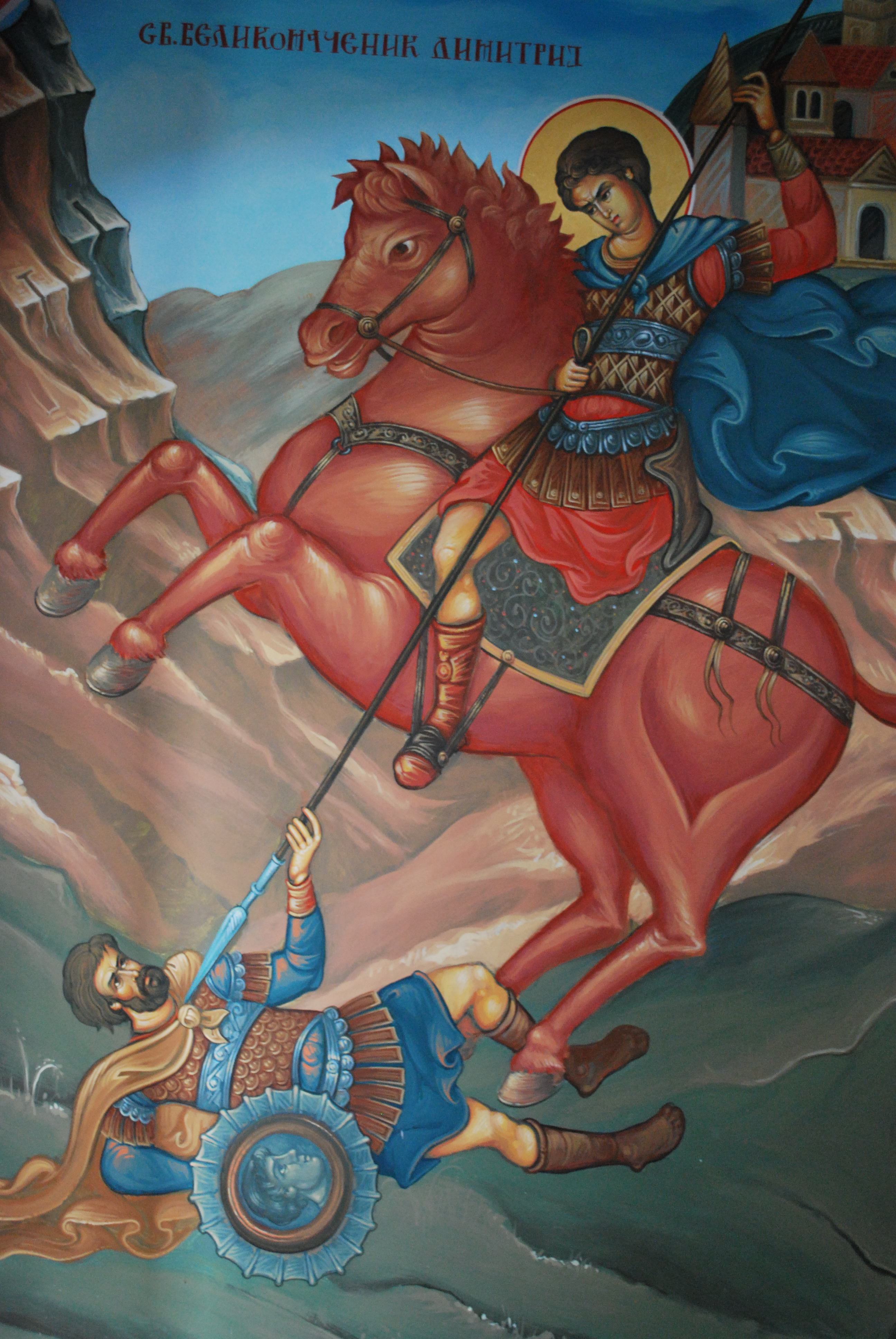 St. Paul Church in Park Ginovci near Kriva Palanka, Macedonia